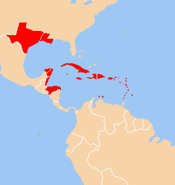 Area preparations for Hurricane Dean August 19 2007. Created by me 2007-08-22. Uploaded by me 2007-09-10. Citations for affected areas can be found here.